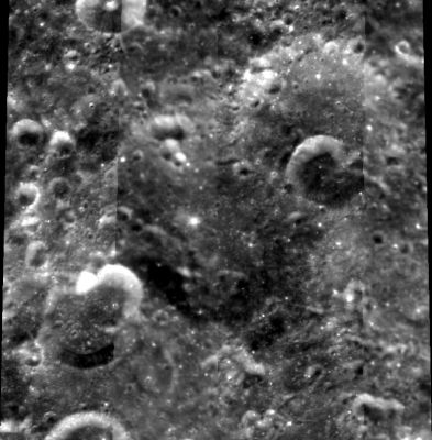 Teisserenc lunar crater - Clementine image